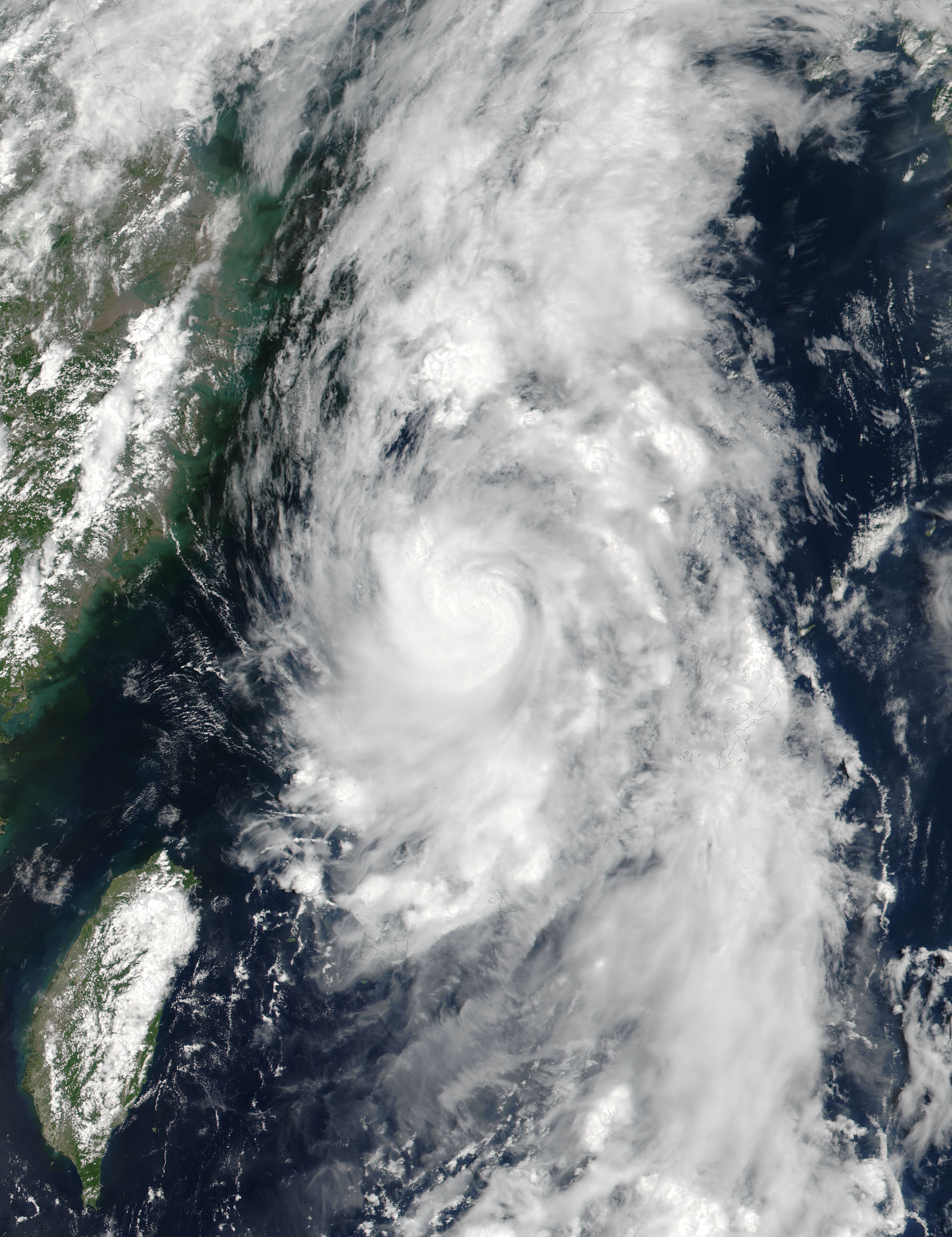 Severe Tropical Storm Nanmadol at peak intensity near the Ryukyu Islands on July 3, 2017.